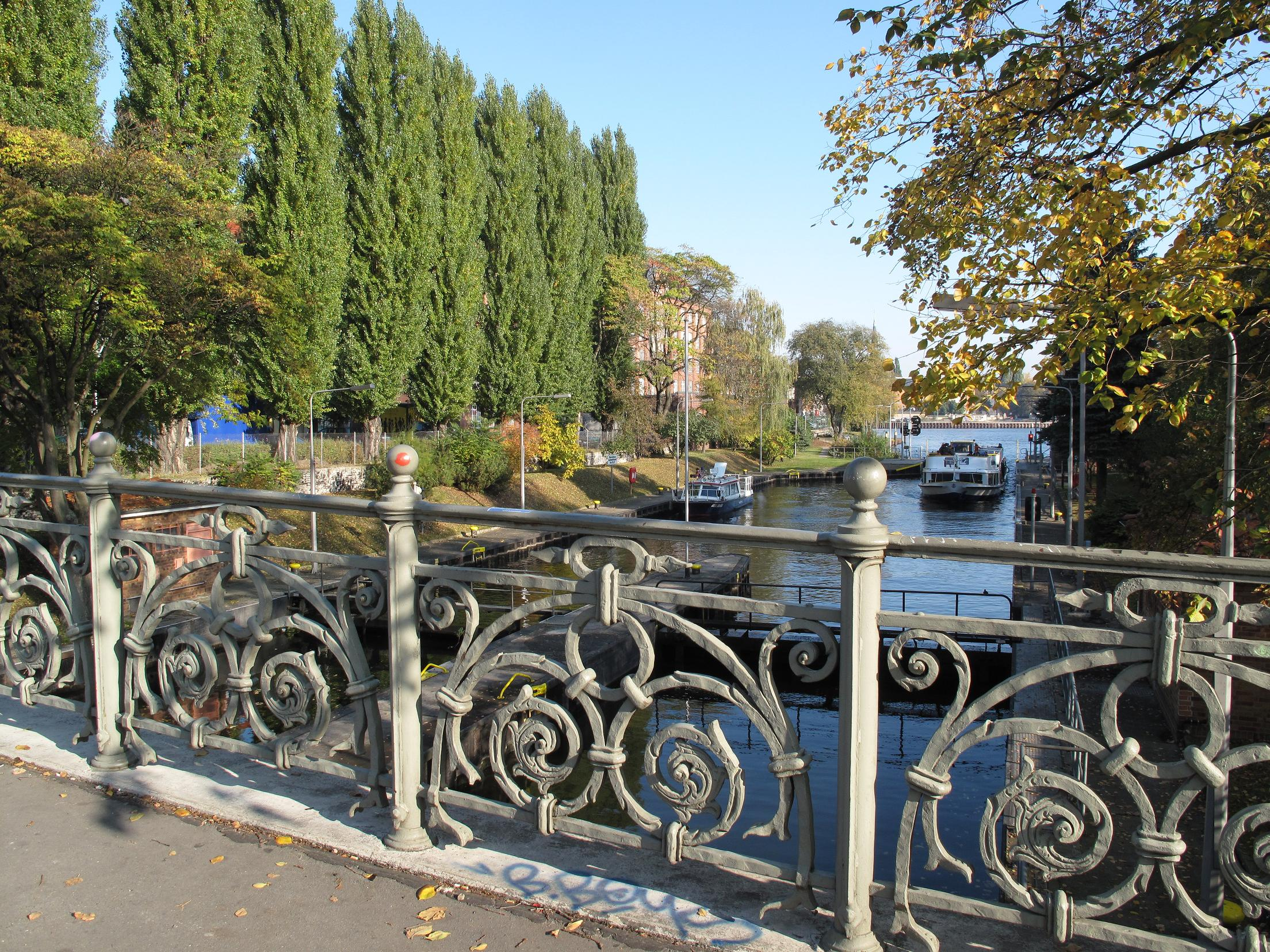 Schlesische Brücke (bridge), crossing the Landwehrkanal (canal) in Berlin-Kreuzberg.